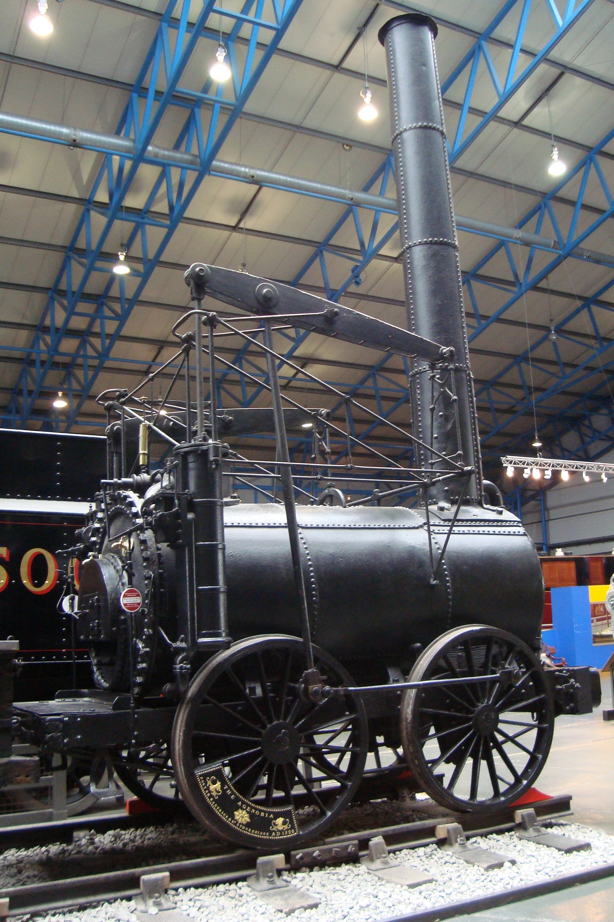 York ... locomotive.